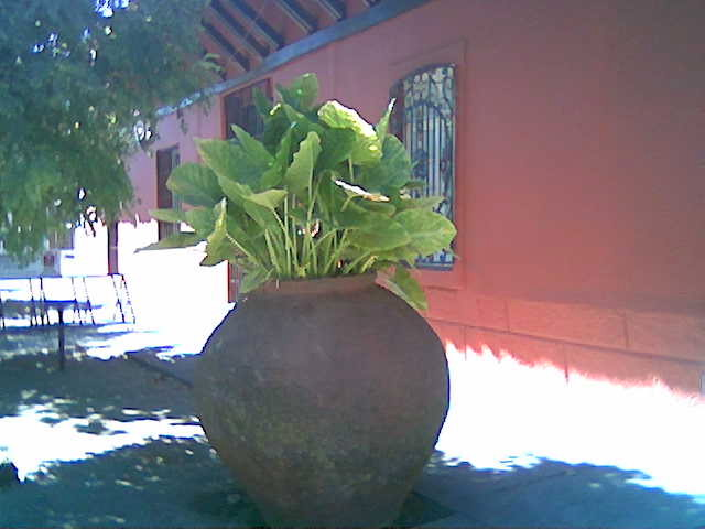 Museum of Art and Crafts, Linares, Chile